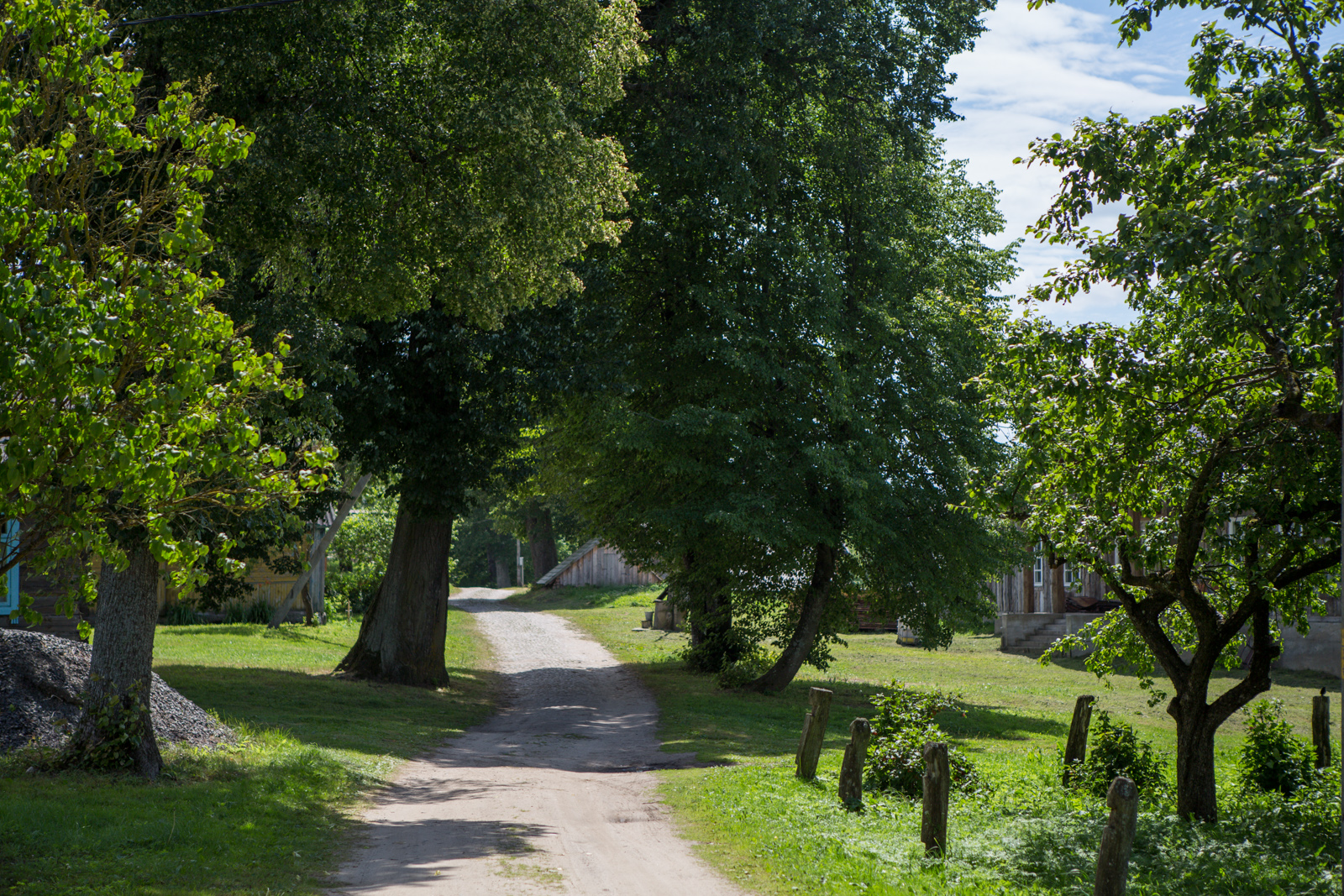 Tinevichy